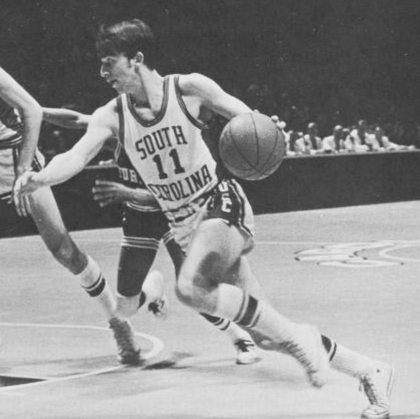 University of South Carolina basketball player John Roche from the 1971 Garnet and Black yearbook.